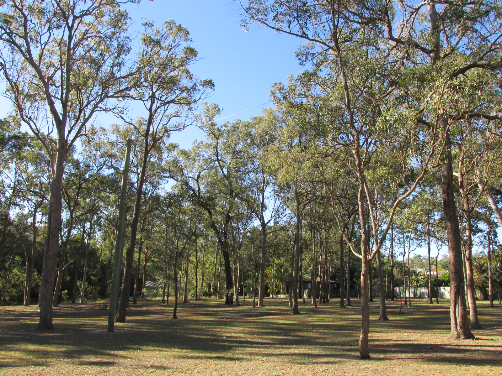 Acacia Park, Browns Plains, Queensland